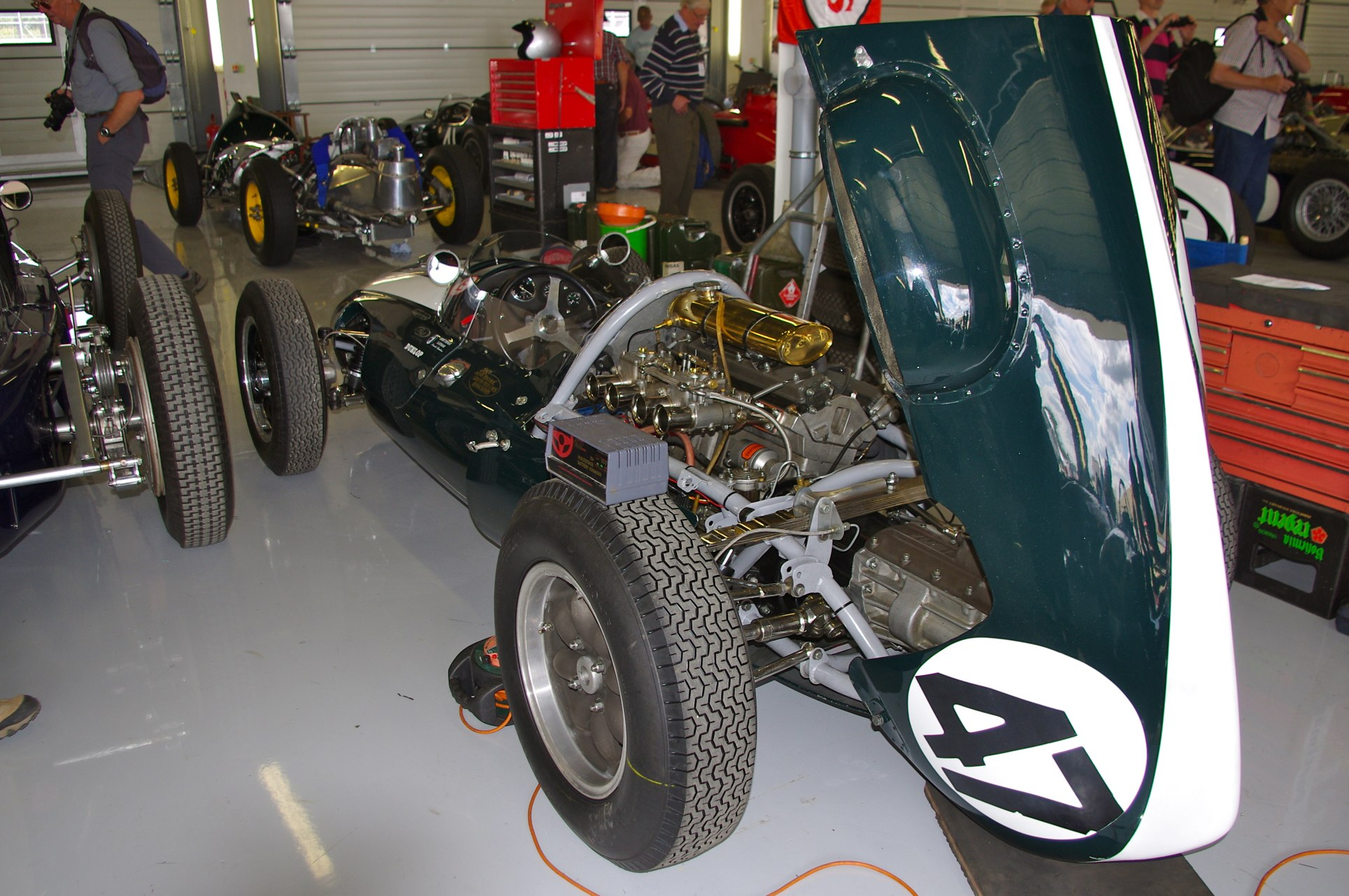 Silverstone Classic 2011